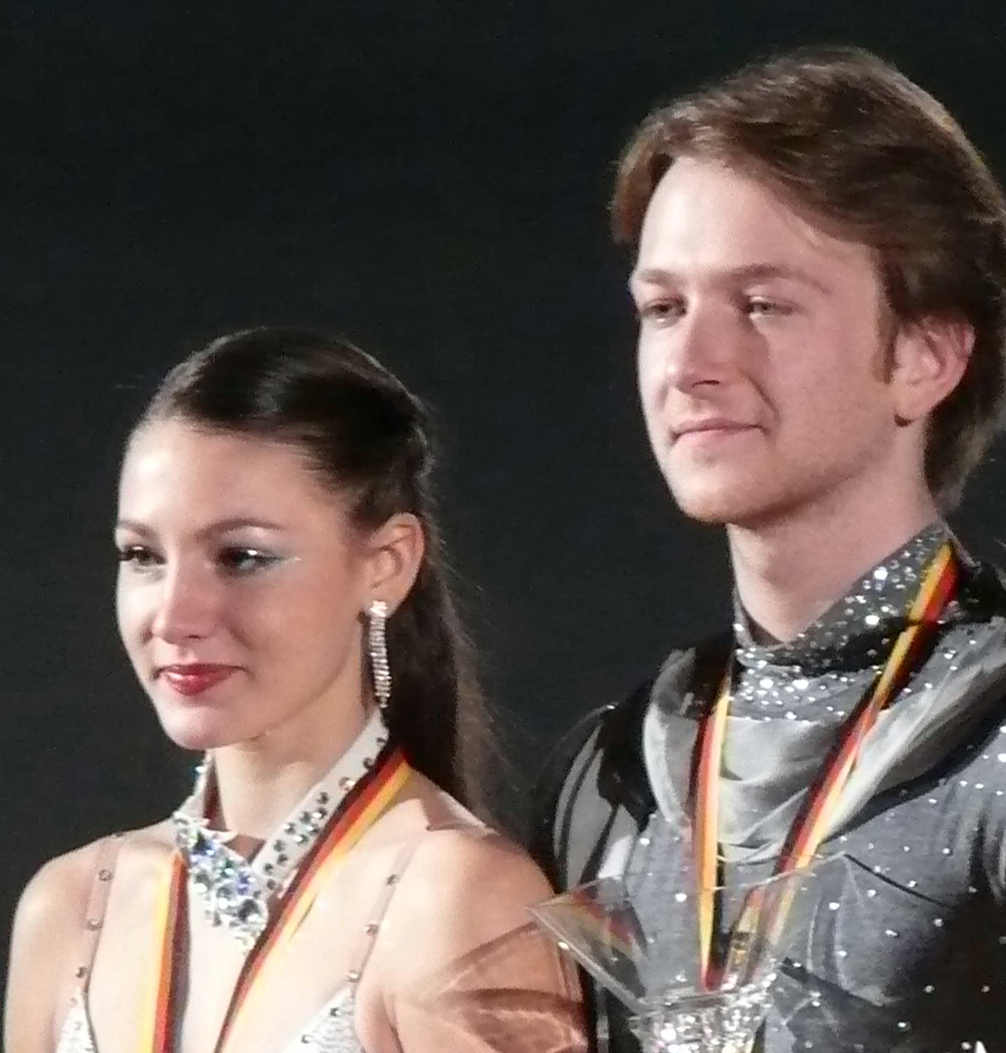 Tanja Kolbe and Stefano Caruso at the German Championships in figure skating 2012 in Oberstdorf.